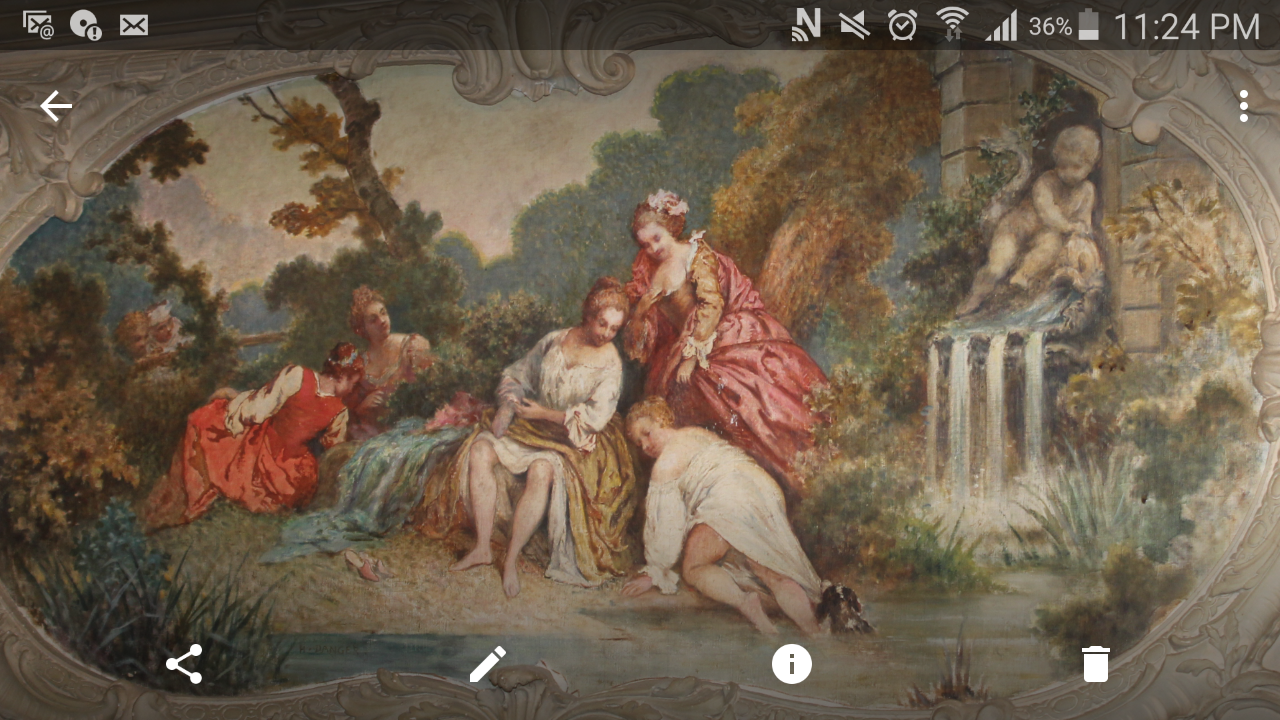 Henri camille danger (1857-1937) was born on 31, 1857 in Paris. He was a known for his painting of historical,mythological and landscape scenes as well as cartoons for tapestries.